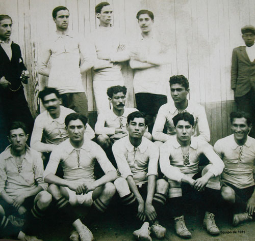 Belgrano de Córdoba football team in 1915.